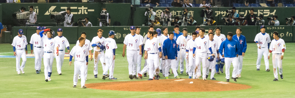 Chinese Taipei national baseball team